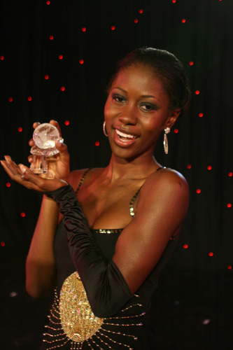 Miss Barbados 2008 with the talent prize in Miss World 2008